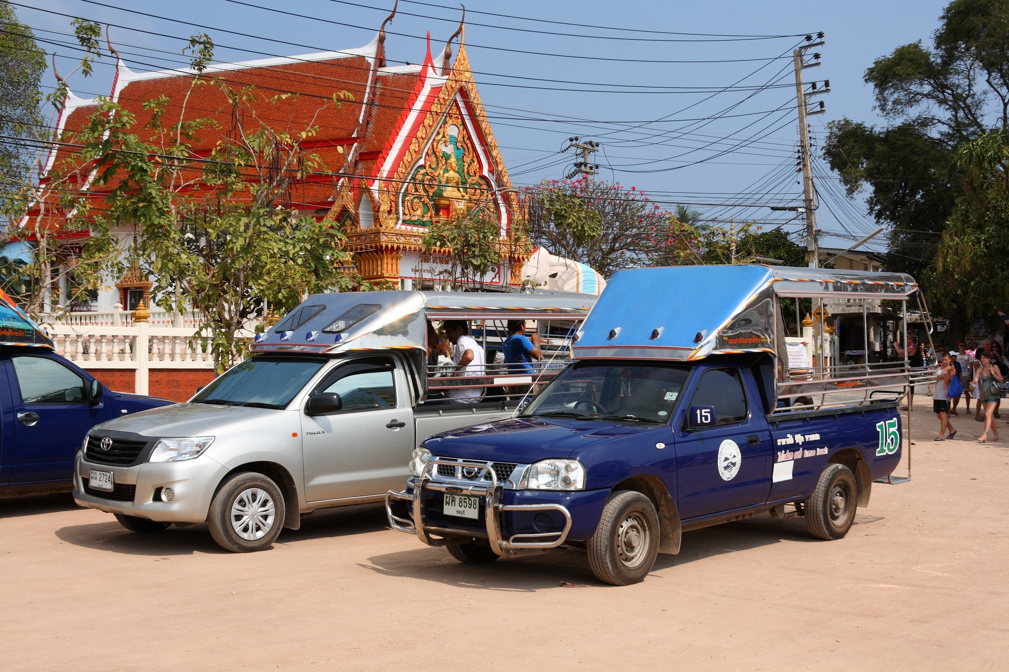 Songthaew on Koh Larn island, Chonburi province, Thailand